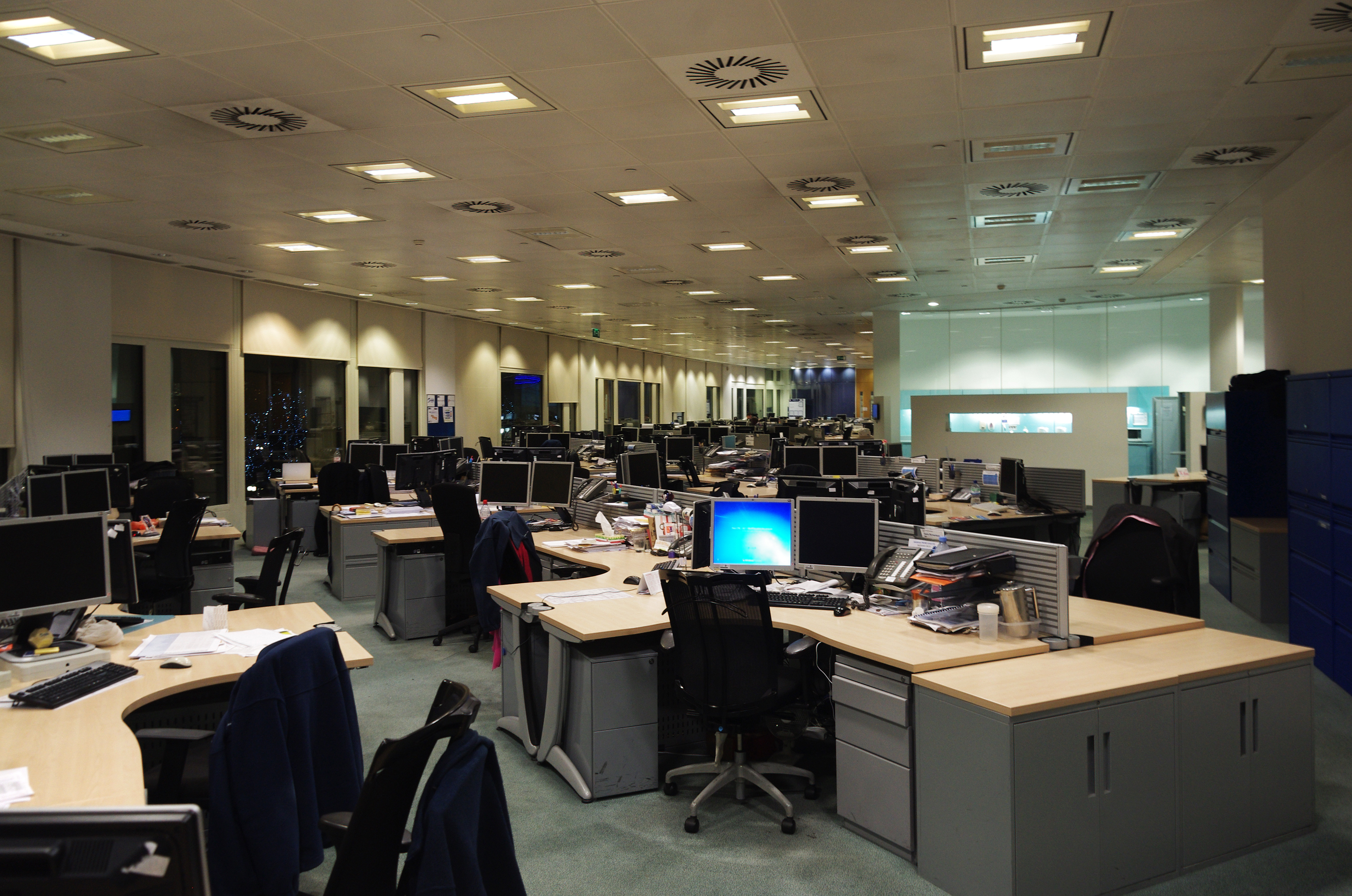 The office at 15 Westferry Circus after hours, when I had been working for several hours creating VBA to create 150 charts.